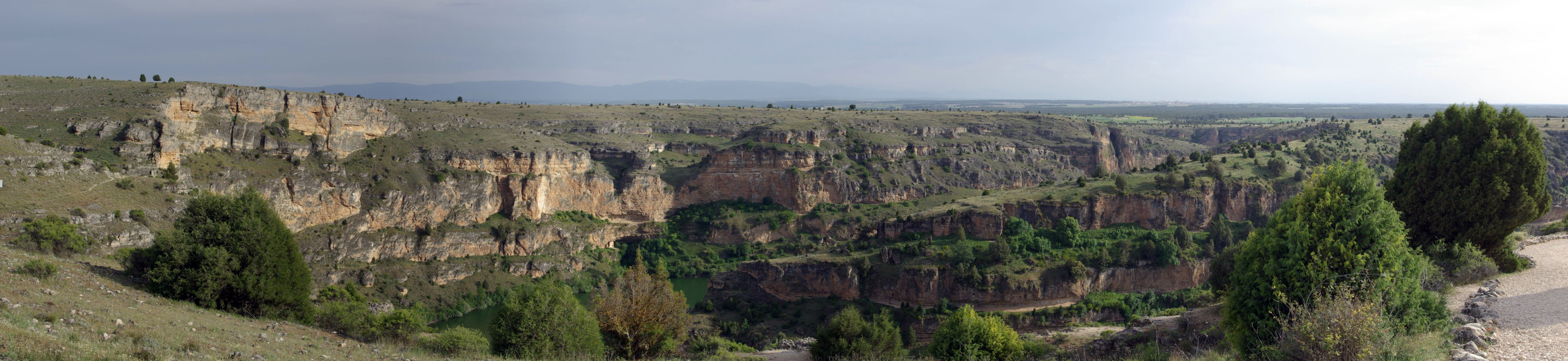 Duratón Canyon from San Frutos chapel path. Southern view.